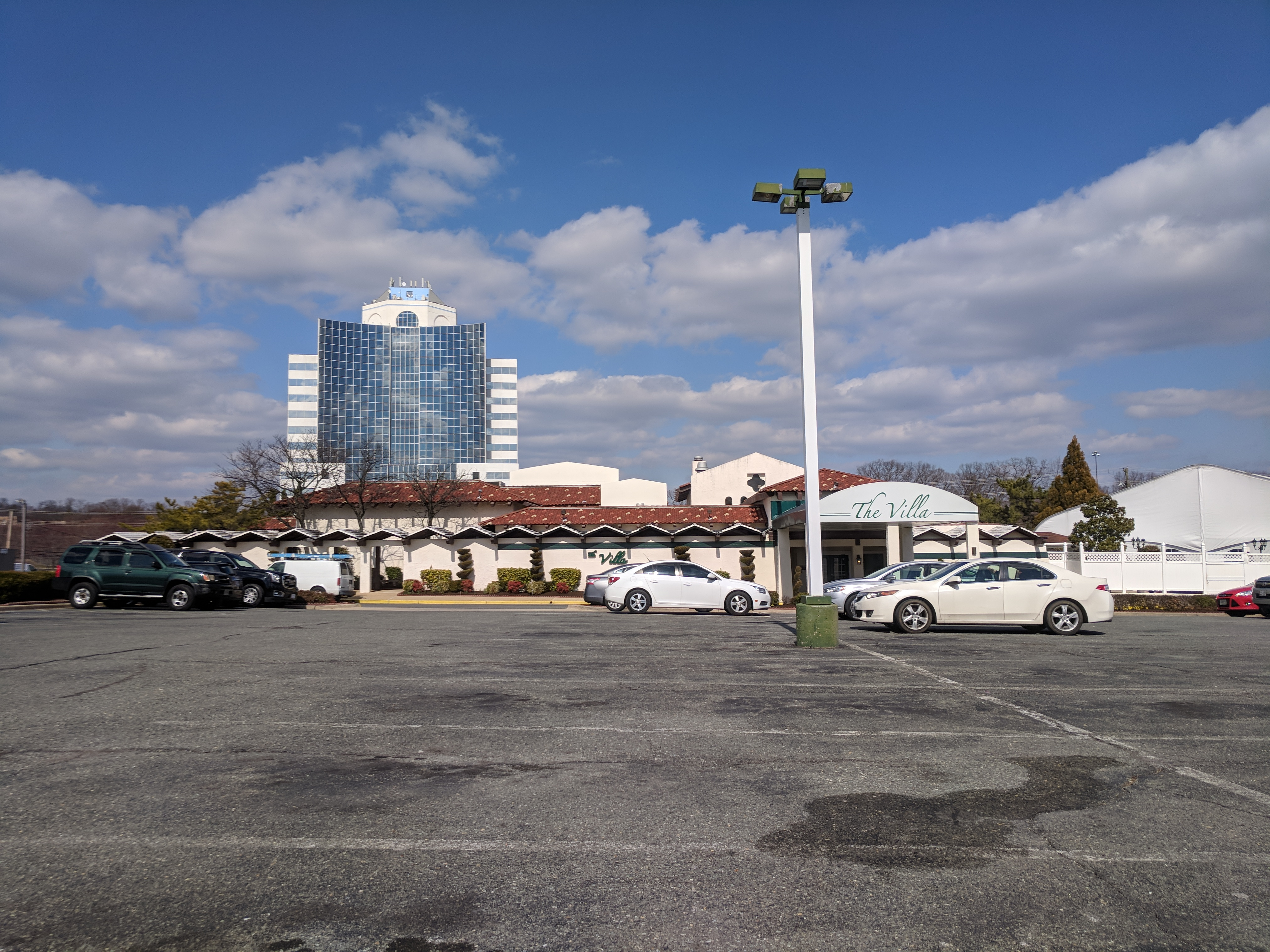 The Villa, a wedding venue in Calverton, Montgomery County, Maryland. The Calverton Tower is in the background.